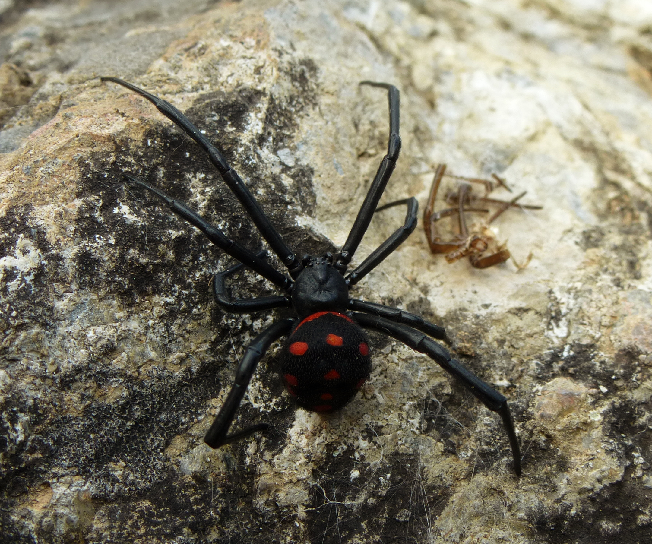 Female specimen of Latrodectus tredecimguttatus Rossi, 1790 (Europäische Schwarze Witwe, Mediterrenean Black Widow) found in Corte, Corsica.